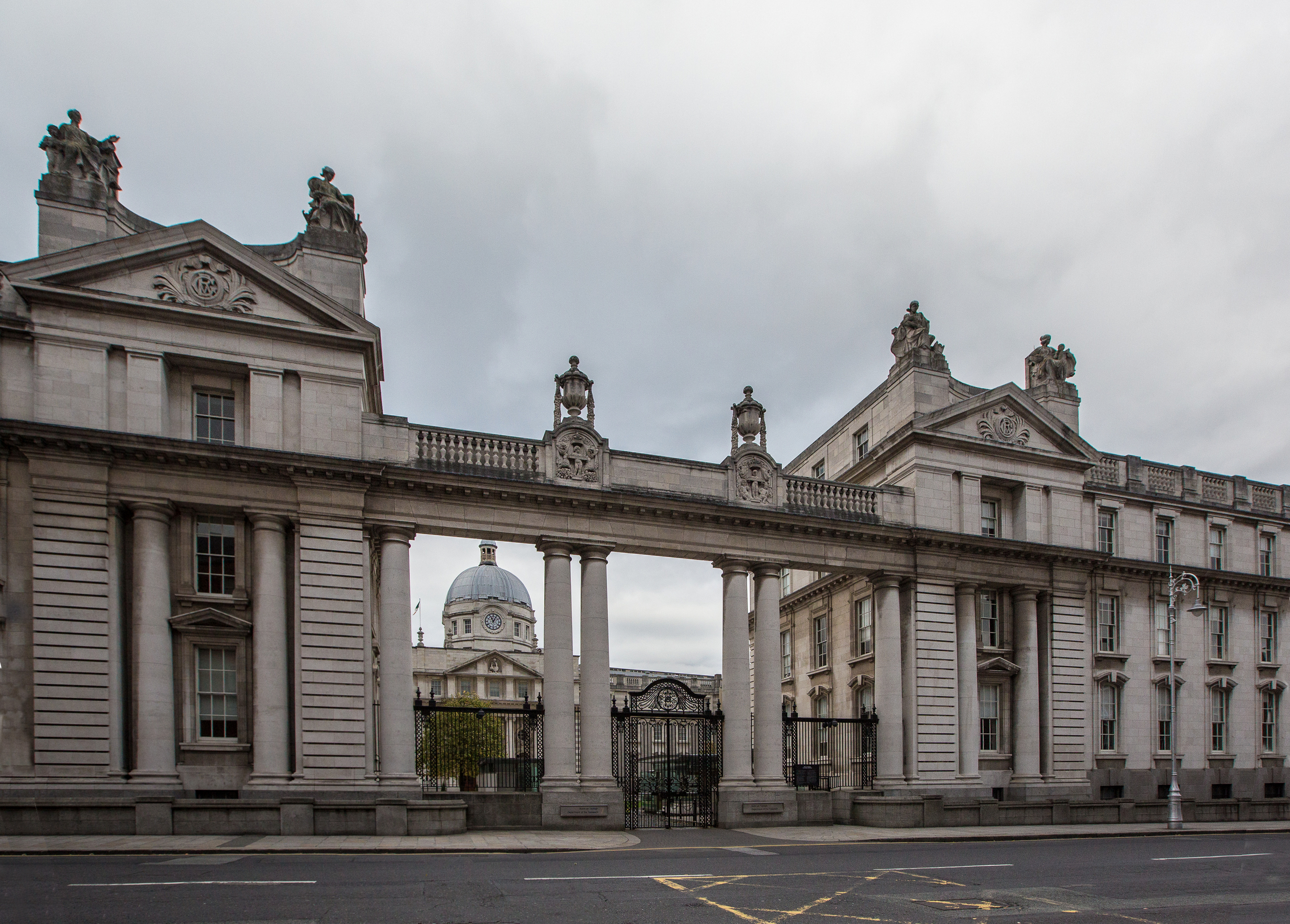 Roinn an Taoisigh / Department of the Taoiseach — Dublin, Ireland